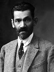 Samih Rifat Bey (The surname of his wife was [Yalnızgil], the surname of his son was [Horozcu])